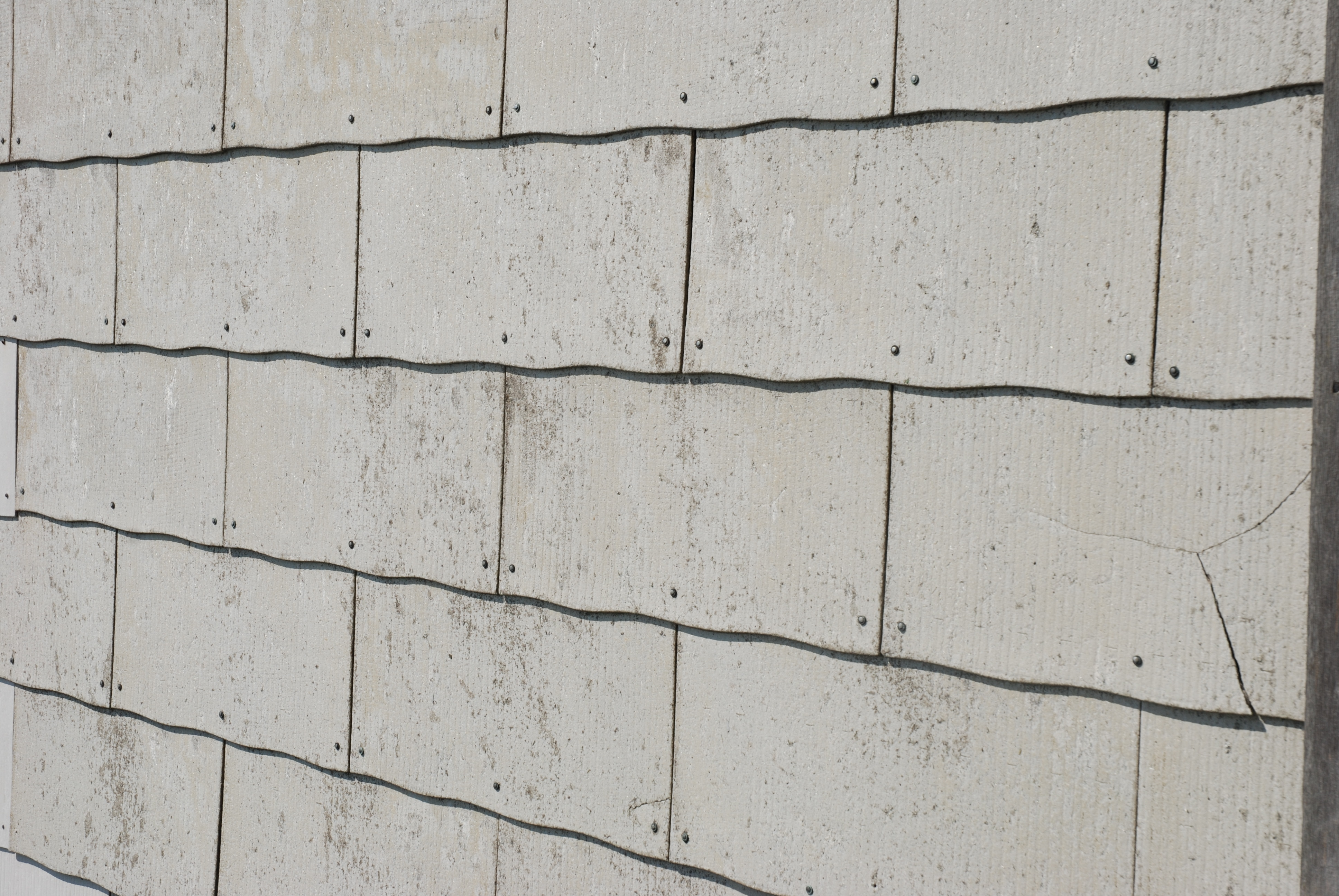 Wall tiles of asbestos cement